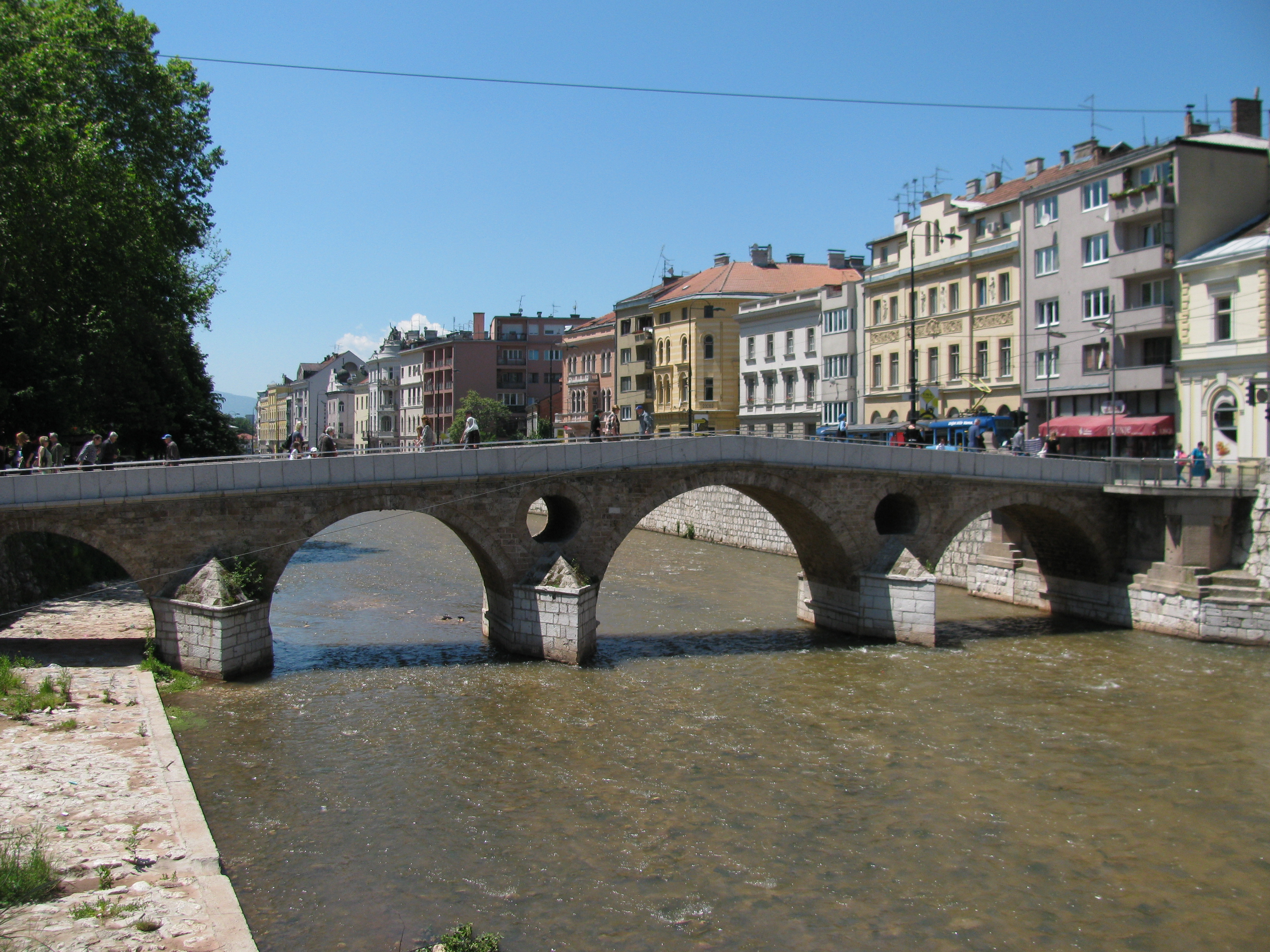 Latin Bridge Sarajevo summer 2010